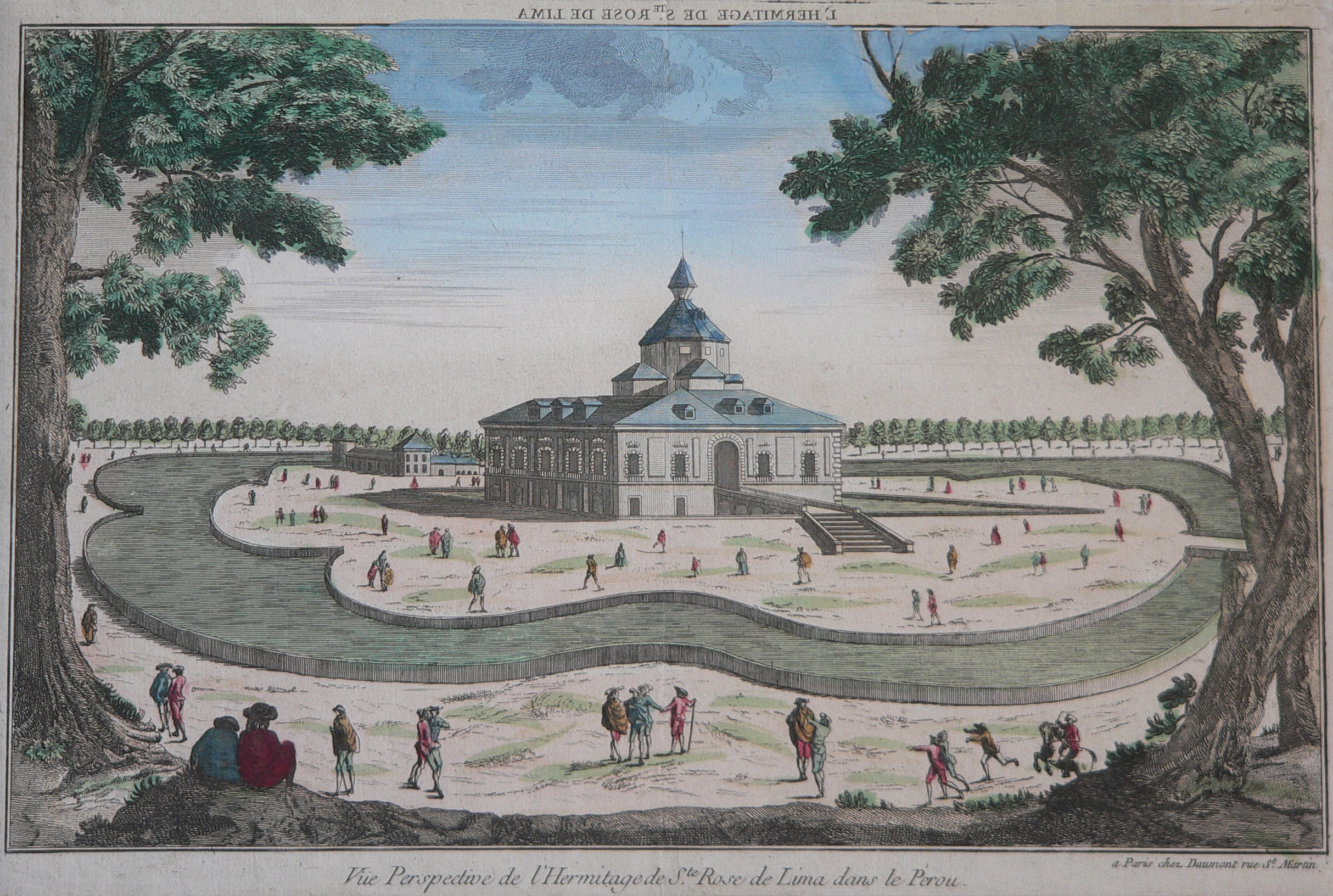 Description: Hermitage of Santa Rosa of Lima City : Lima Country : Peru Lithographie by : Daumont, Rue Saint Martin, Paris Date: XVII century Photographer: © Manuel González Olaechea y Franco Shot date : November, 6th., 2005